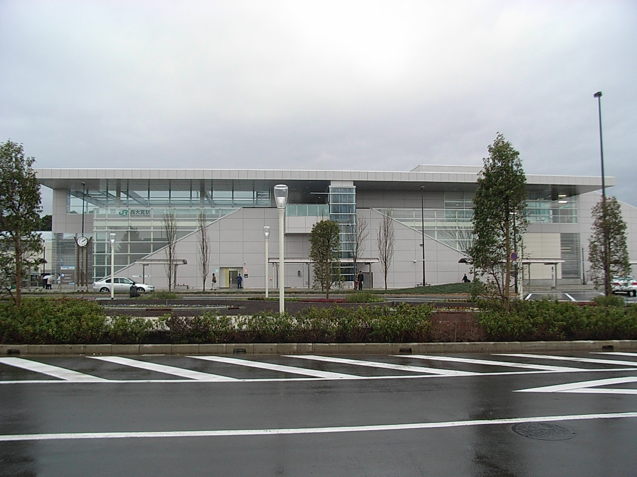 Nishi-Omiya Station (North Entrance) on the JR Kawagoe Line)